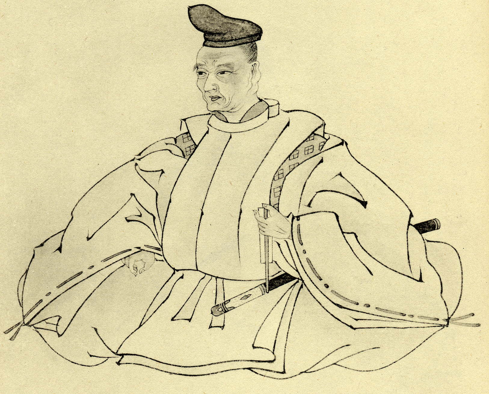 Chikamatsu Monzaemon was a Japanese dramatist of jōruri, the form of puppet theater that later came to be known as bunraku, and the live-actor drama, kabuki.